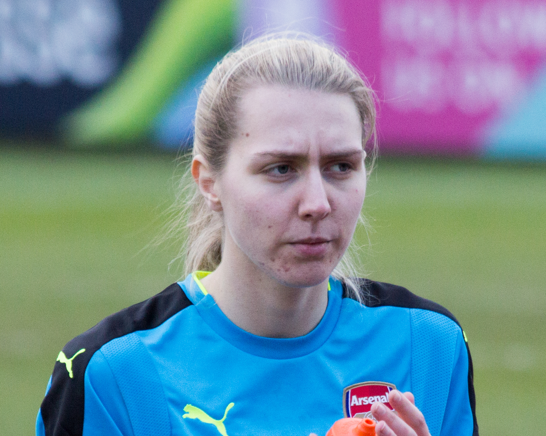 Arsenal LFC (Red) v Kelly Smith All-Stars XI (Yellow), 19 February 2017 – post-match